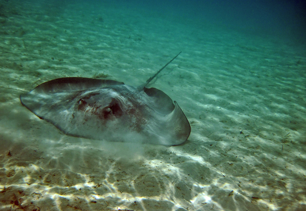 Pink whipray (Himantura fai) at Moorea, French Polynesia